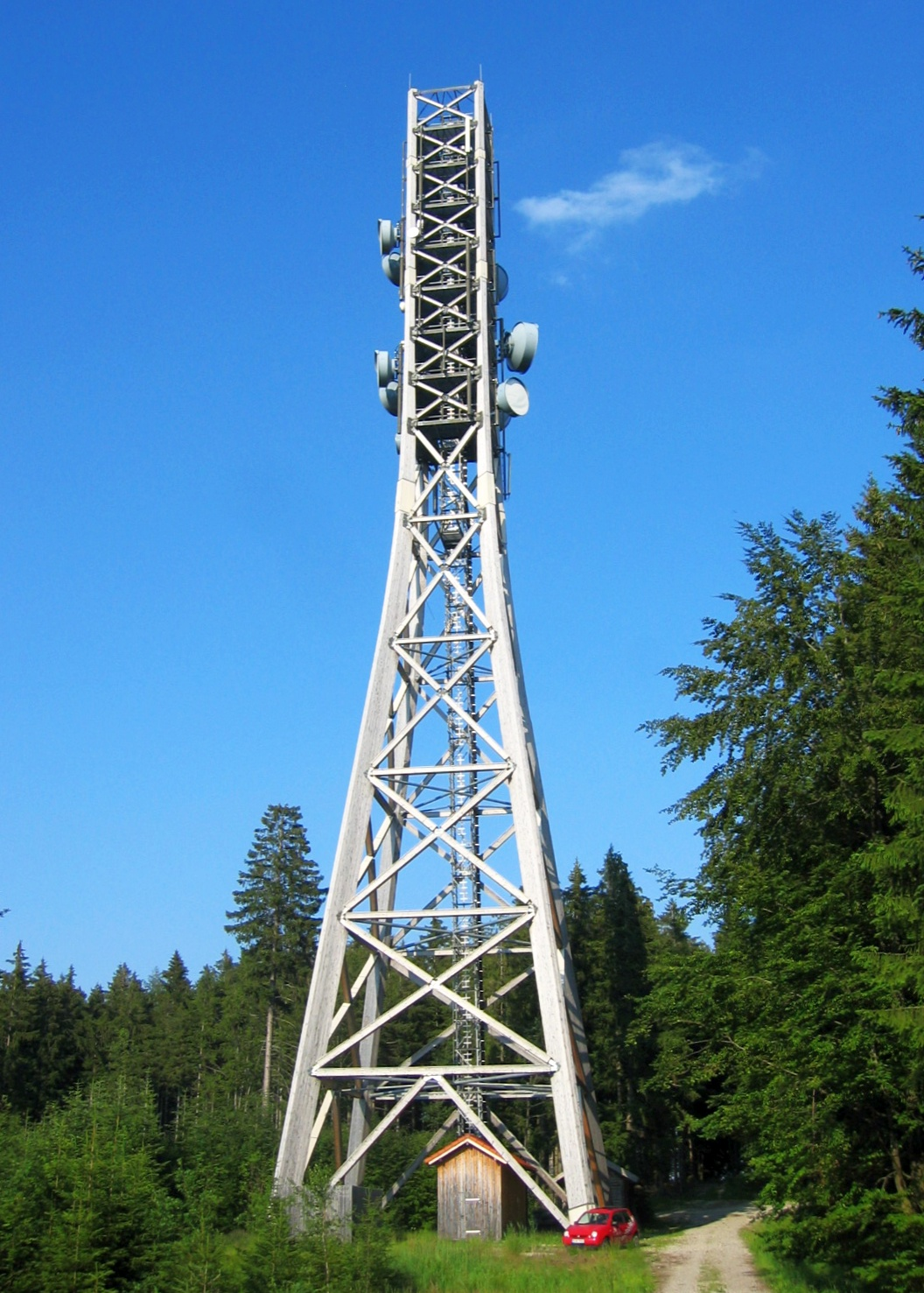 Funkturm Rottenbuch, located near the municipiality border between Peiting and Rottenbuch